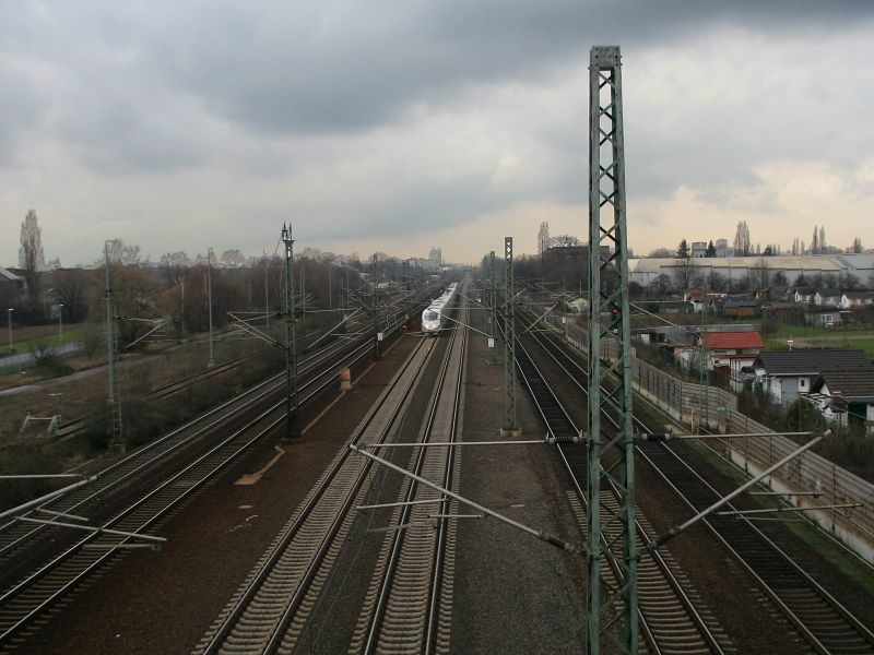 InterCityExpress on the Cologne-Frankfurt high-speed rail line near Porz (Rhein). Actually there are three parallel lines here.